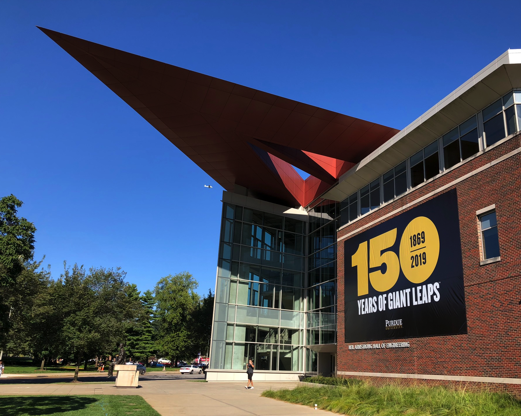 Neil Armstrong Hall of Engineering on Purdue University main campus in West Lafayette, IN